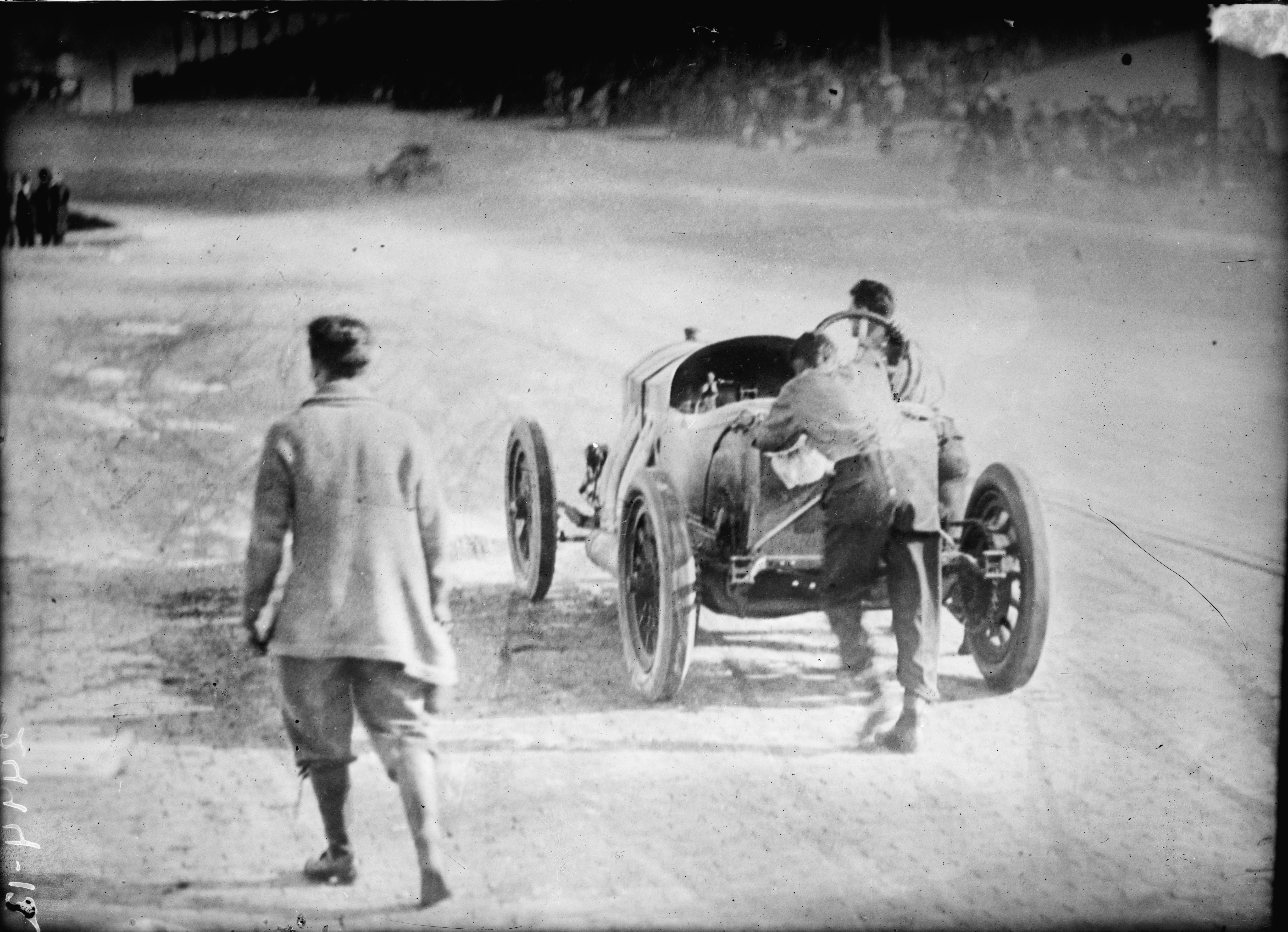 Ralph DePalma pushing his car at the 1912 Indianapolis 500 race